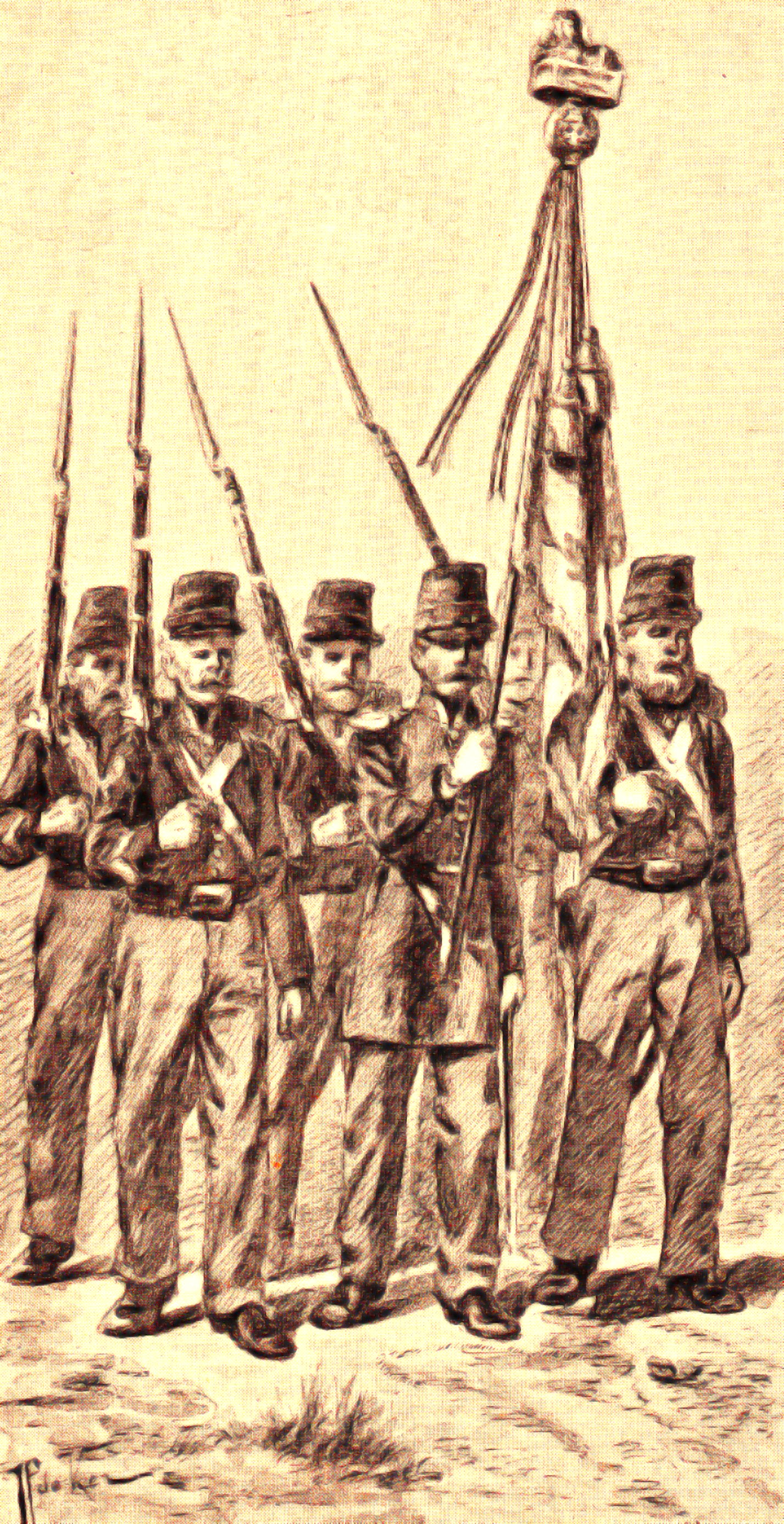 Vaandel van het zevende bataljon van het Koninklijk Nederlandsch-Indisch Leger